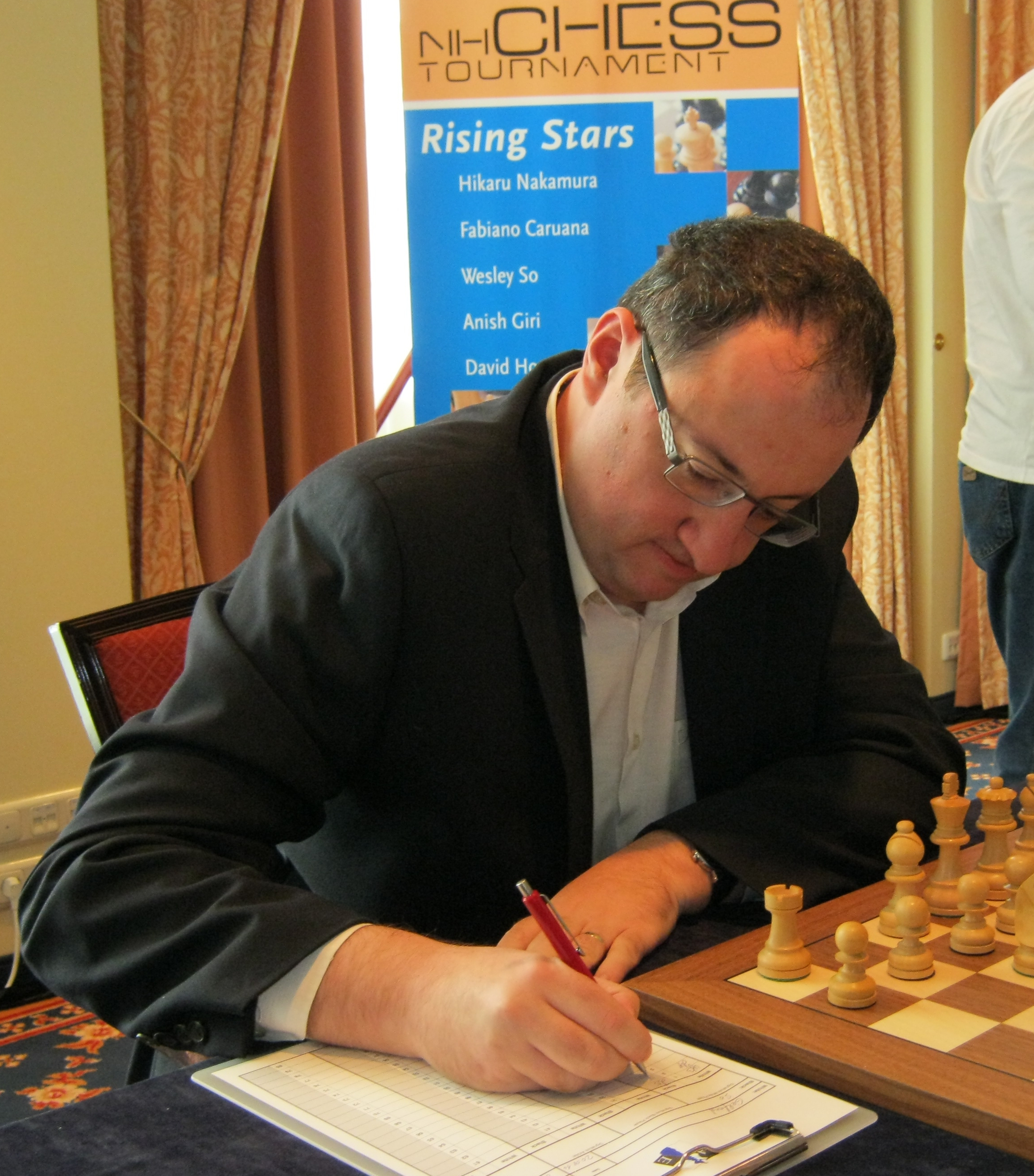 Boris Gelfand, chess grandmaster